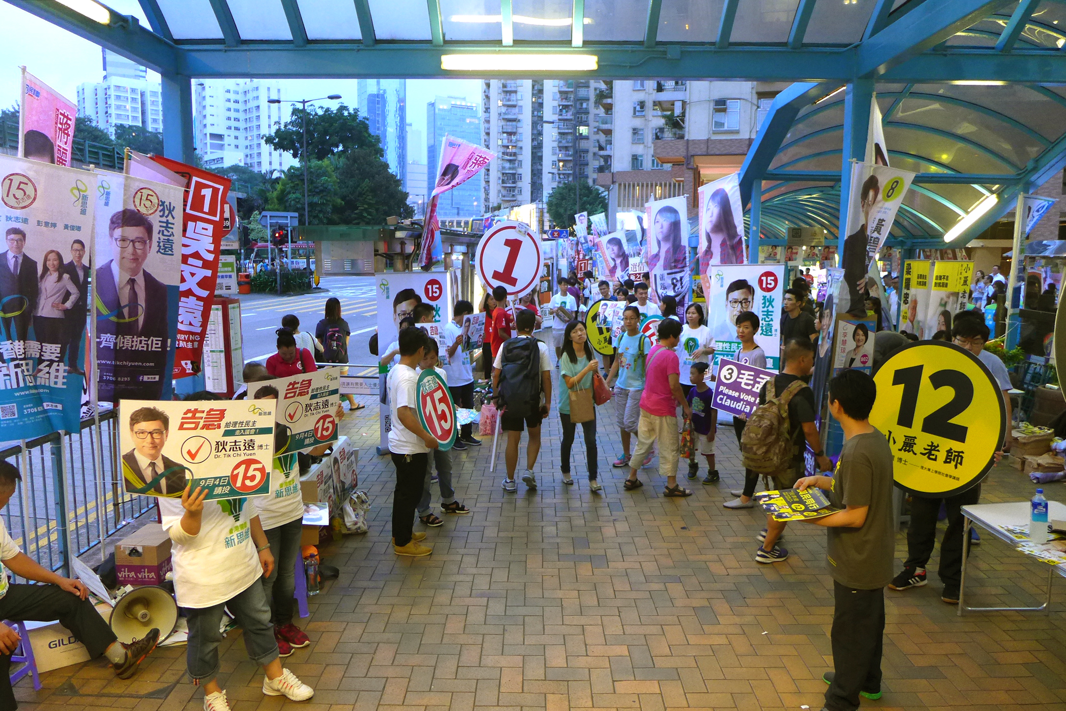 2016 Hong Kong legislative election KL West Mei Foo Promotion